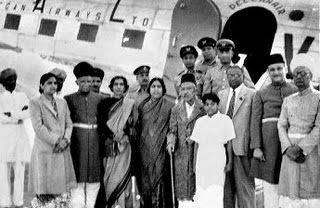 The seventh Nizam, Mir Osman Ali Khan, alongwith some close aides ready to take his first ride in a Dakota of Deccan Airways Limited from Begumpet airport in 1951 after becoming Rajpramukh of Hyderabad